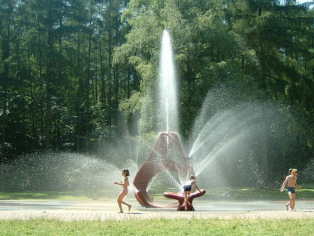 a playground in Frankfurt am Main, Germany, called Scheerwald, situated in the Frankfurter Stadtwald.